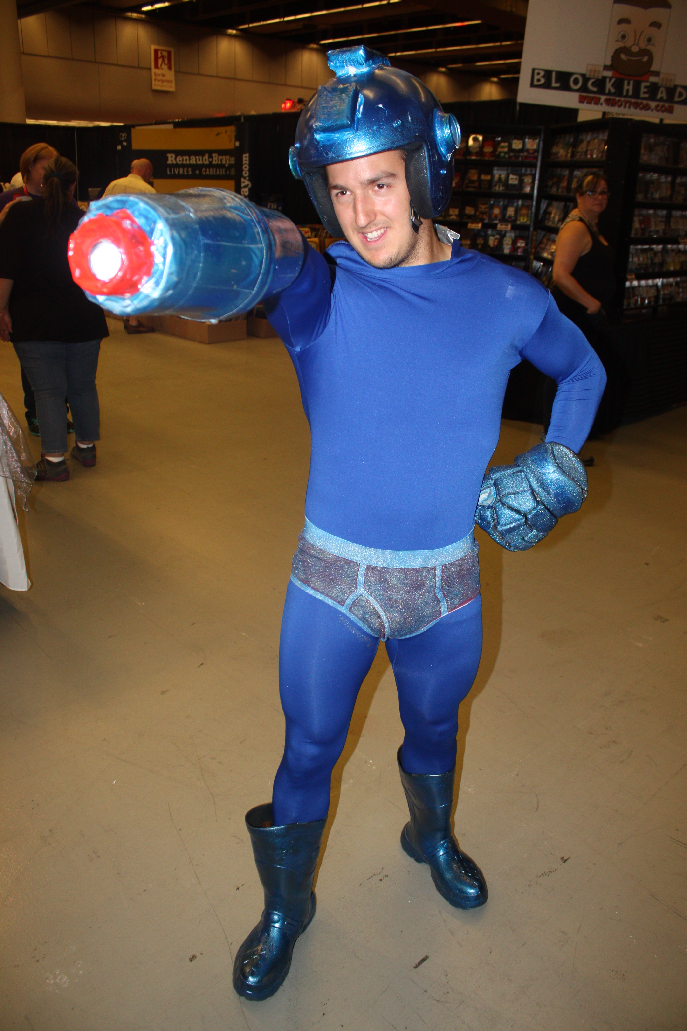 Cosplay one day two of Montreal Comiccon 2015.